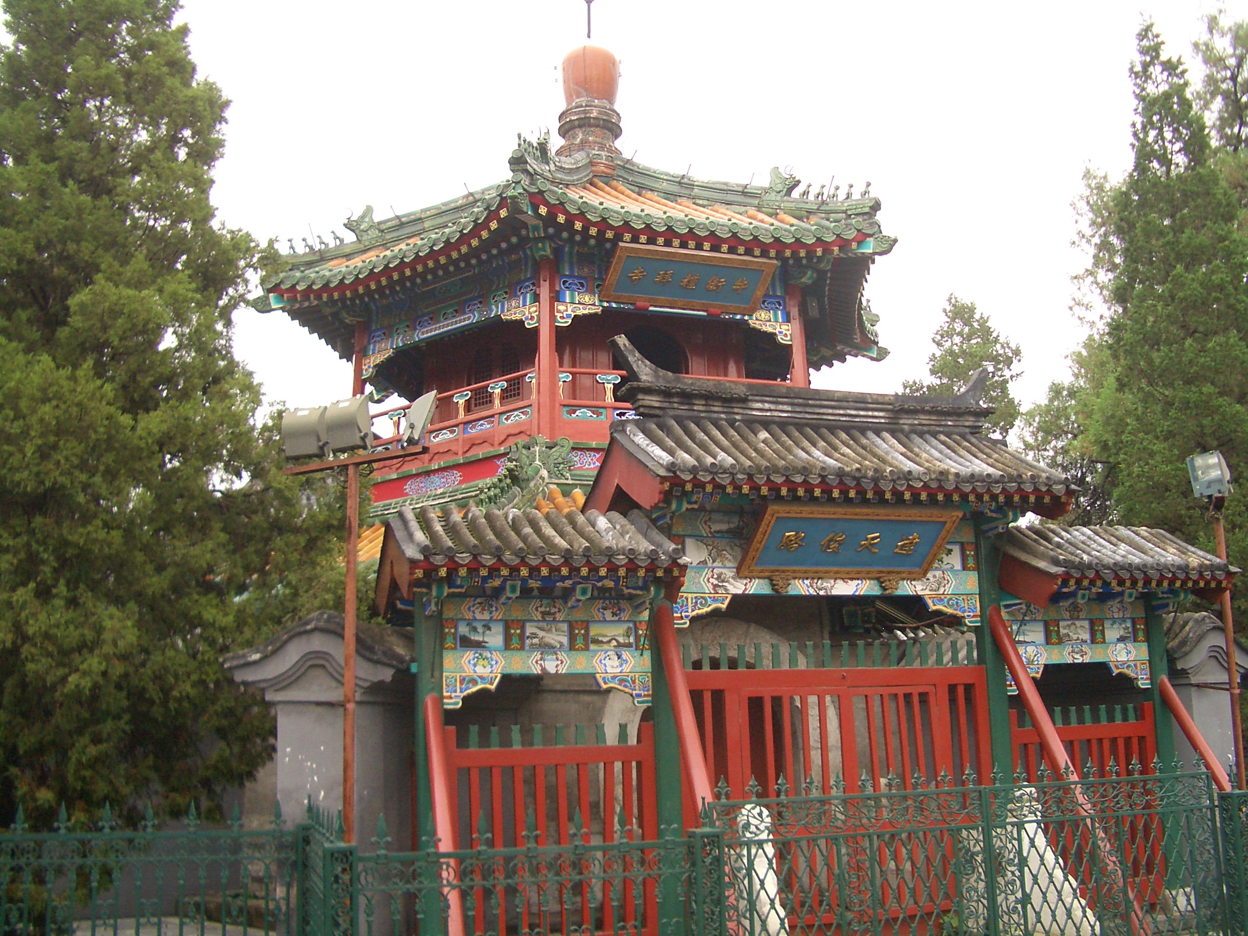 Niujie Mosque, Beijing